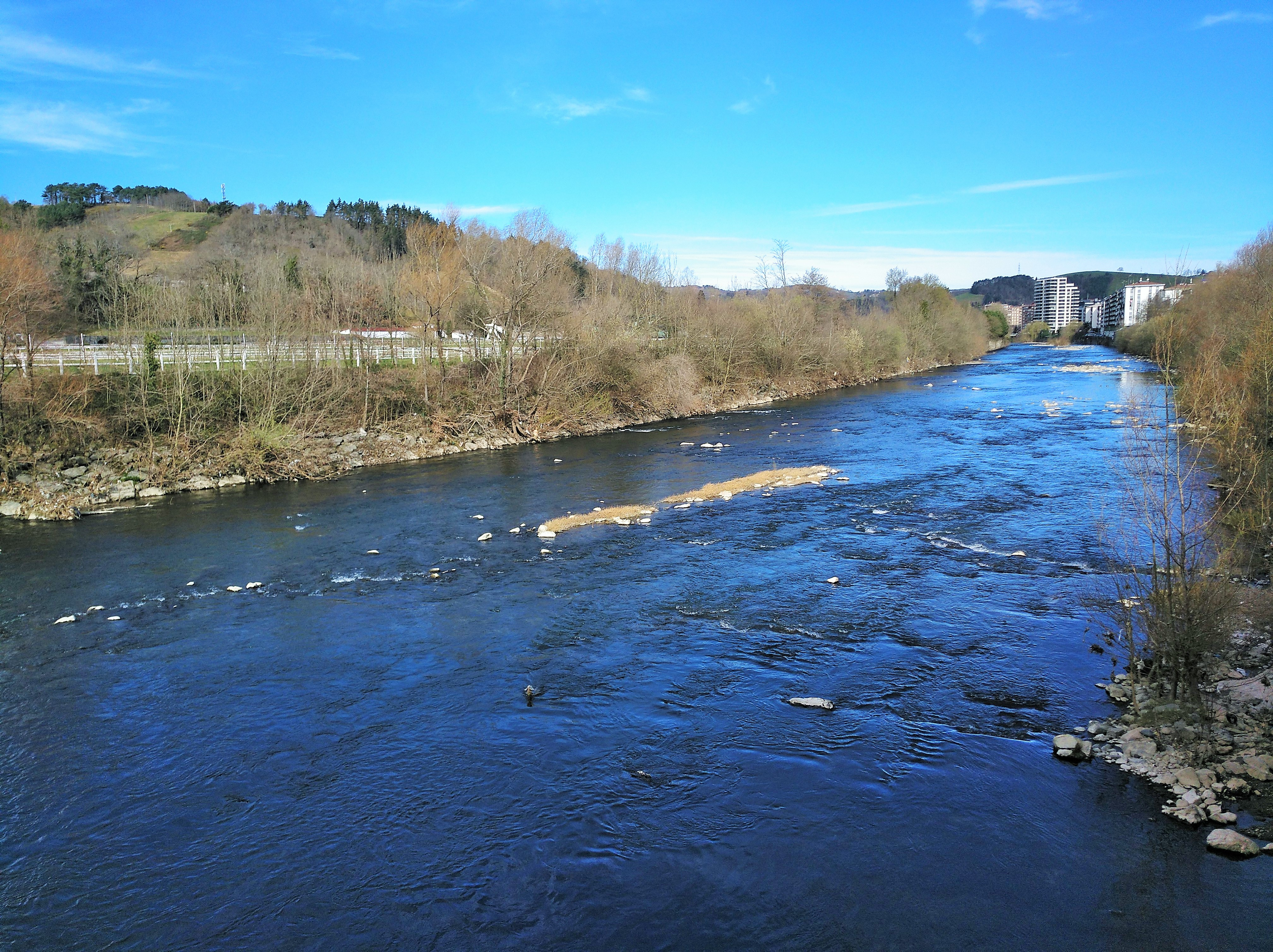 River Oria through Lasarte